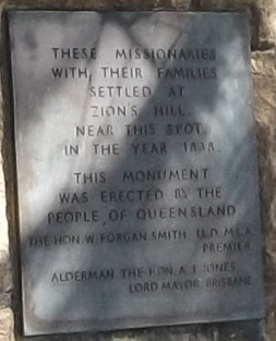 Memorial plaque on the First Free Settlers Monument in Nundah, Brisbane, Queensland, Australia.